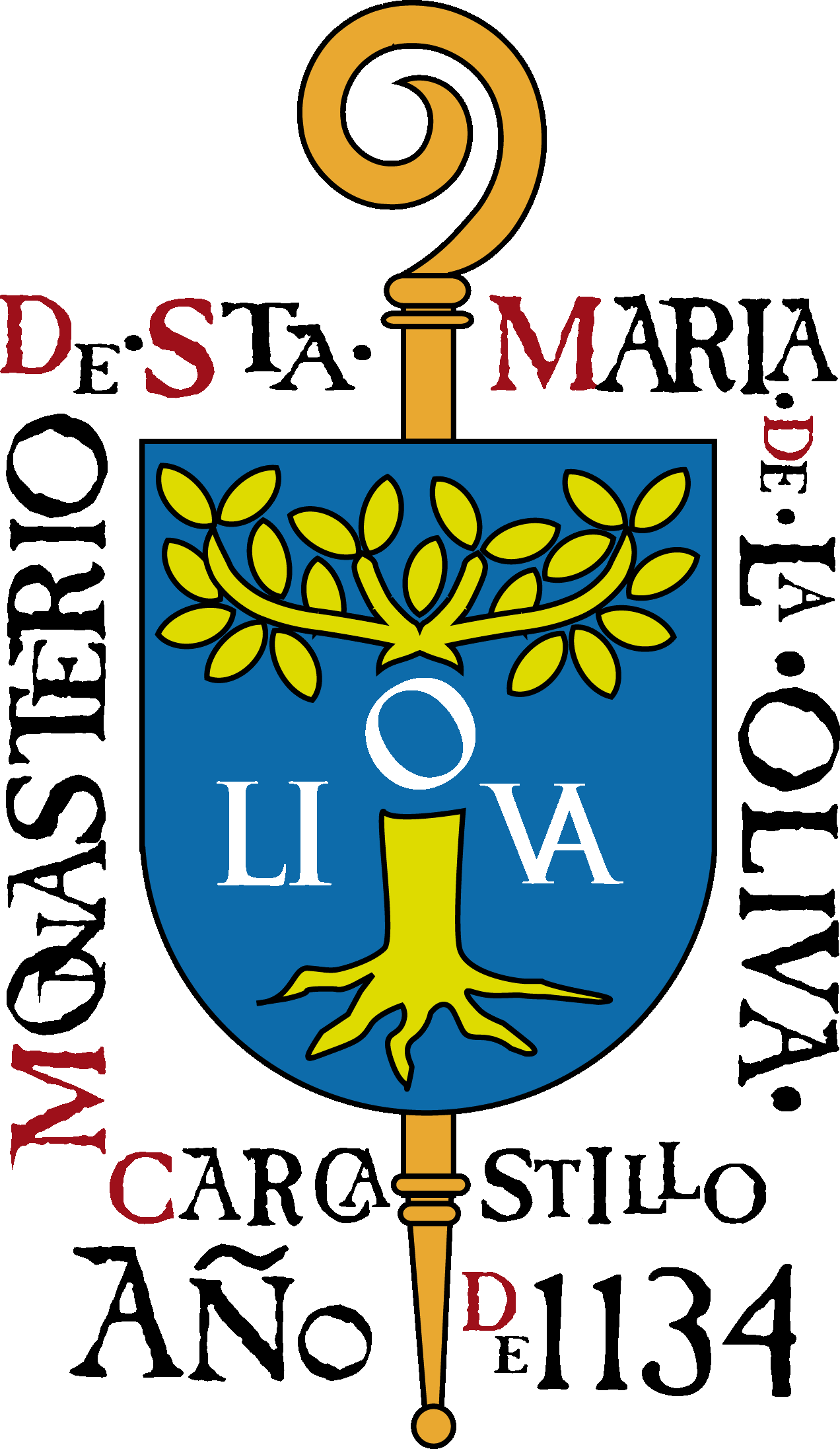 Coats of arms abbey Oliva. Spain